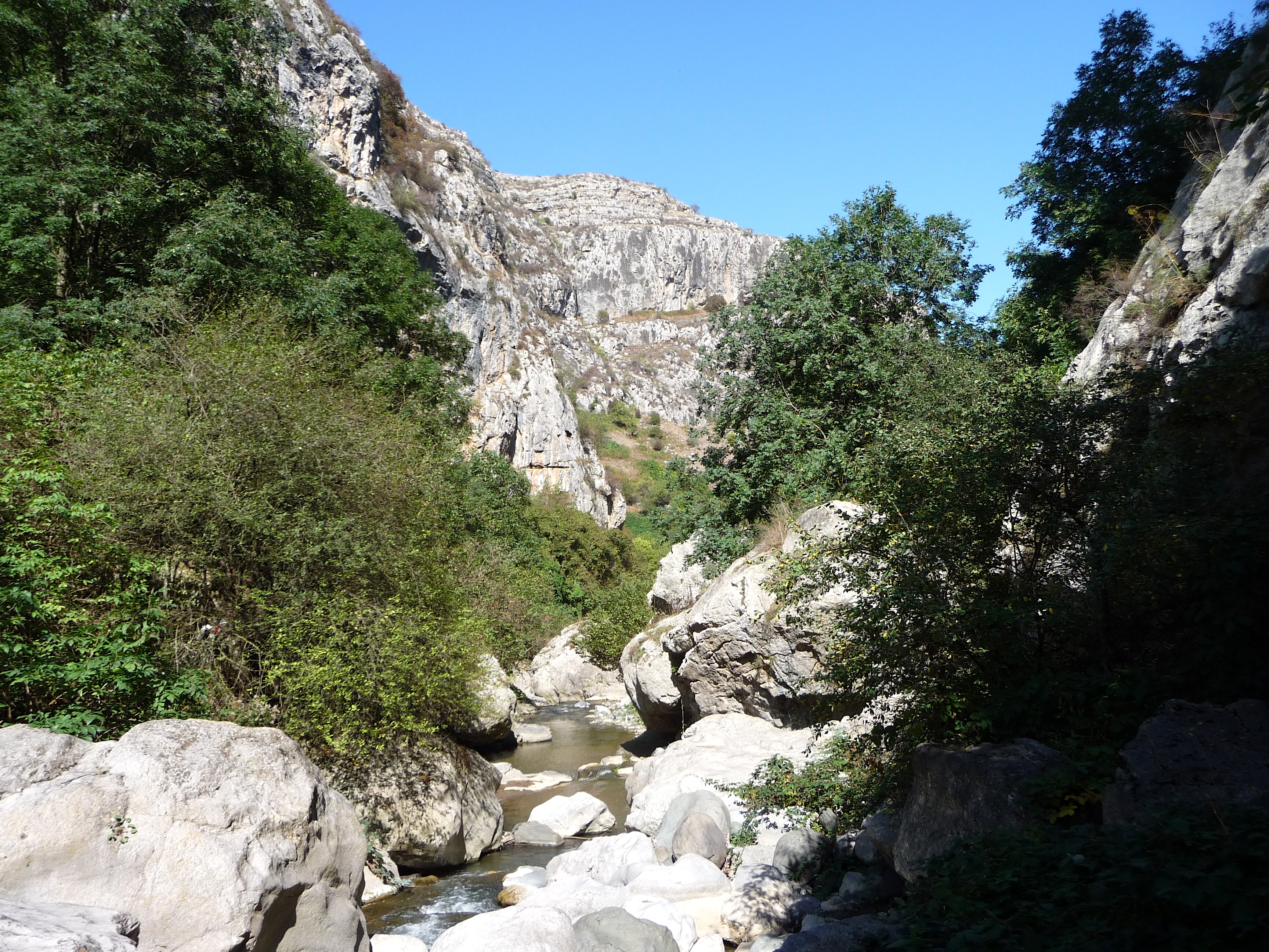 The Karkar River near Karintak/Dashalty, Nagorno-Karabakh.